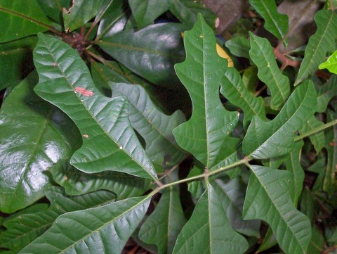 Rhodosphaera rhodanthema juvenile lobed leaves